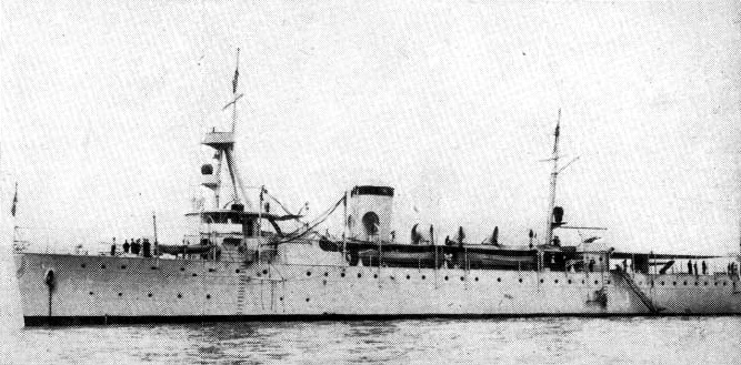 The Cuban Navy gunboat Cuba. She was built at Cramp, Philadelphia (USA), in 1911 and served until 1961. From 1961 to 1971, she was used as accommodation ship.